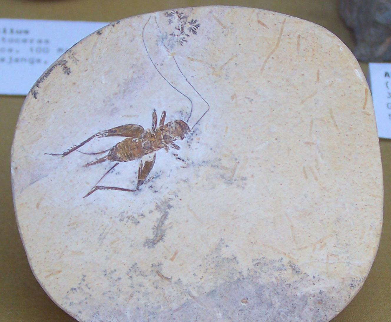 Fossil of a cricket, order Orthoptera. Found in the Lower Cretaceous Santana Formation, near Nova Olinda, Brasil. Whole rock specimen is about 8 cm in diameter. Picture taken from a shop window in Zürich, Switzerland.